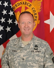 Kurt J. Ryan